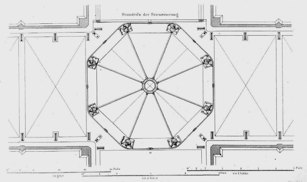 Cologne Cathedral, Crossing Tower, ground frame with stabilization ring, droawing by Richard Voigtel, 1860